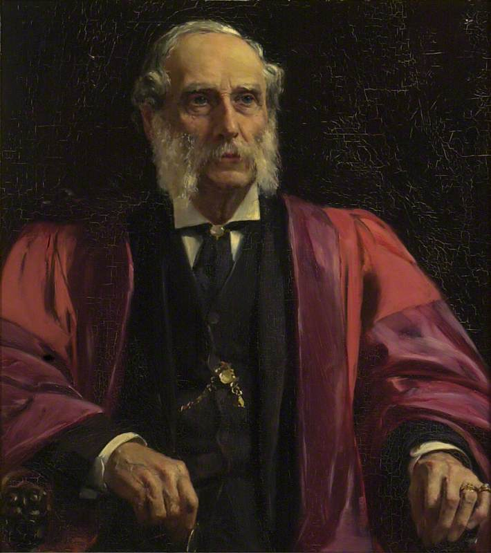 Portrait of Charles Drury Edward Fortnum (1820–1899), English art collector.